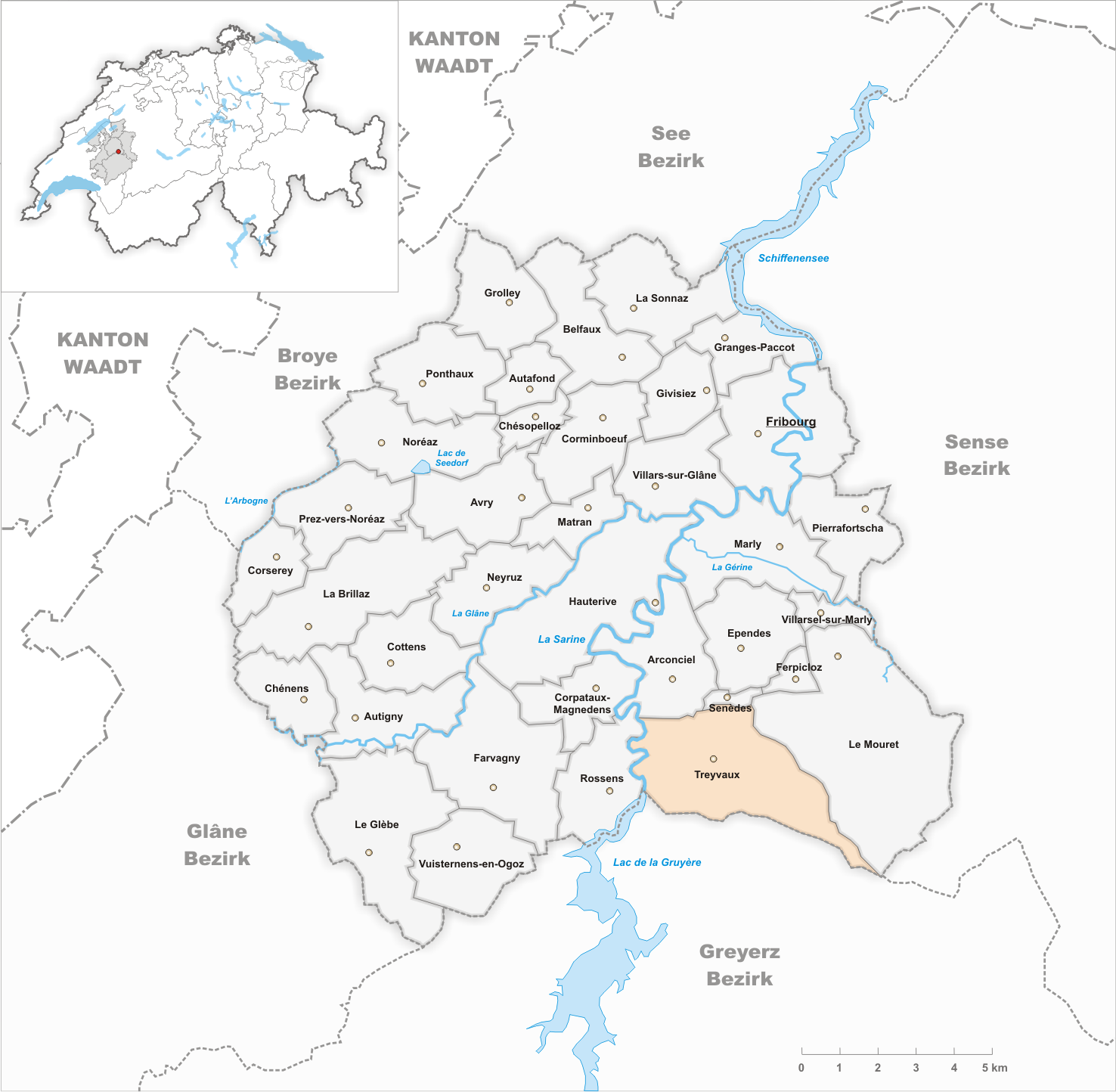 Municipality Treyvaux